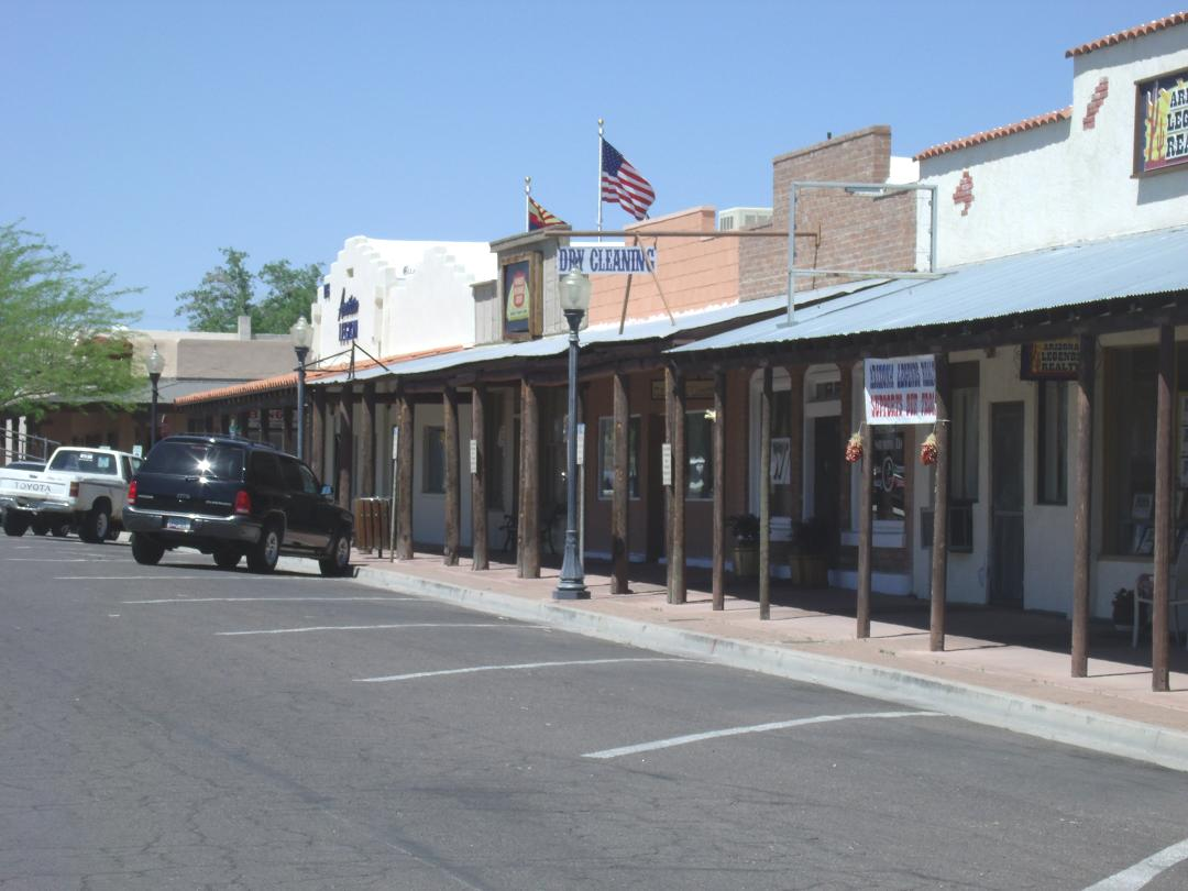 View of Old Frontier Street in Wickenburg, Arizona